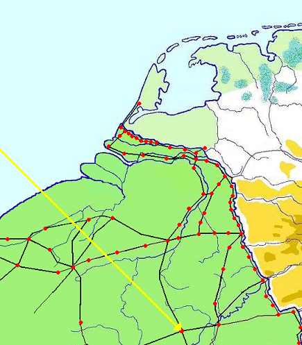 Simplified drawing of Belgium and the Netherlands in Roman times showing roads and settlements. The arrow points to Orolaunum (Arlon).